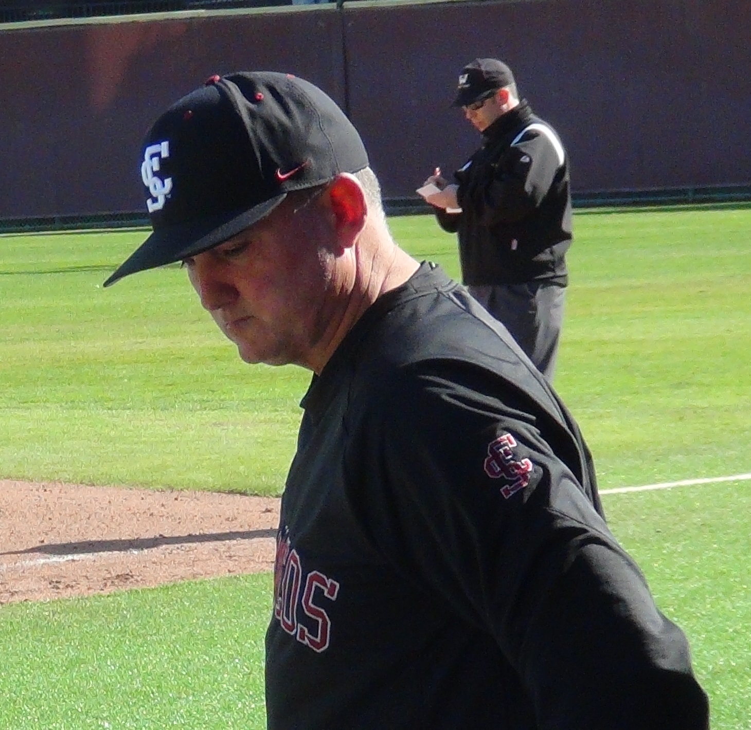 Santa Clara University baseball head coach Rusty Filter during a game against San Jose State on February 17, 2019.